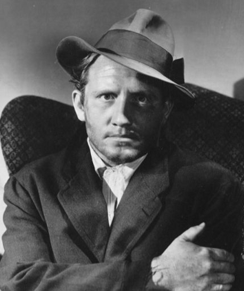 Cropped publicity photograph for the 1936 film Fury, featuring Spencer Tracy.